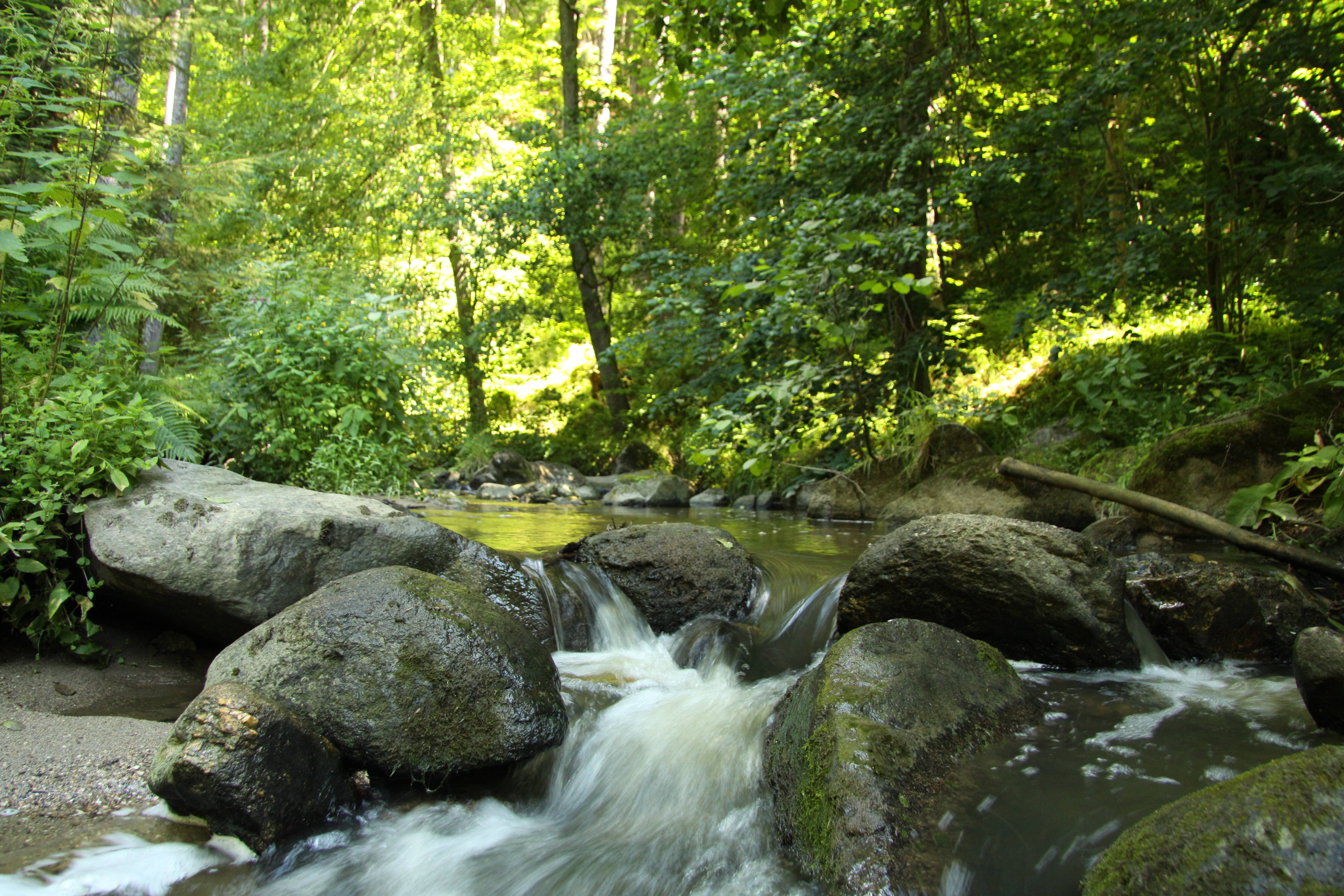 Natural monument Vlásenický potok in Tábor District, Czech Republic - Google Maps - Google Earth